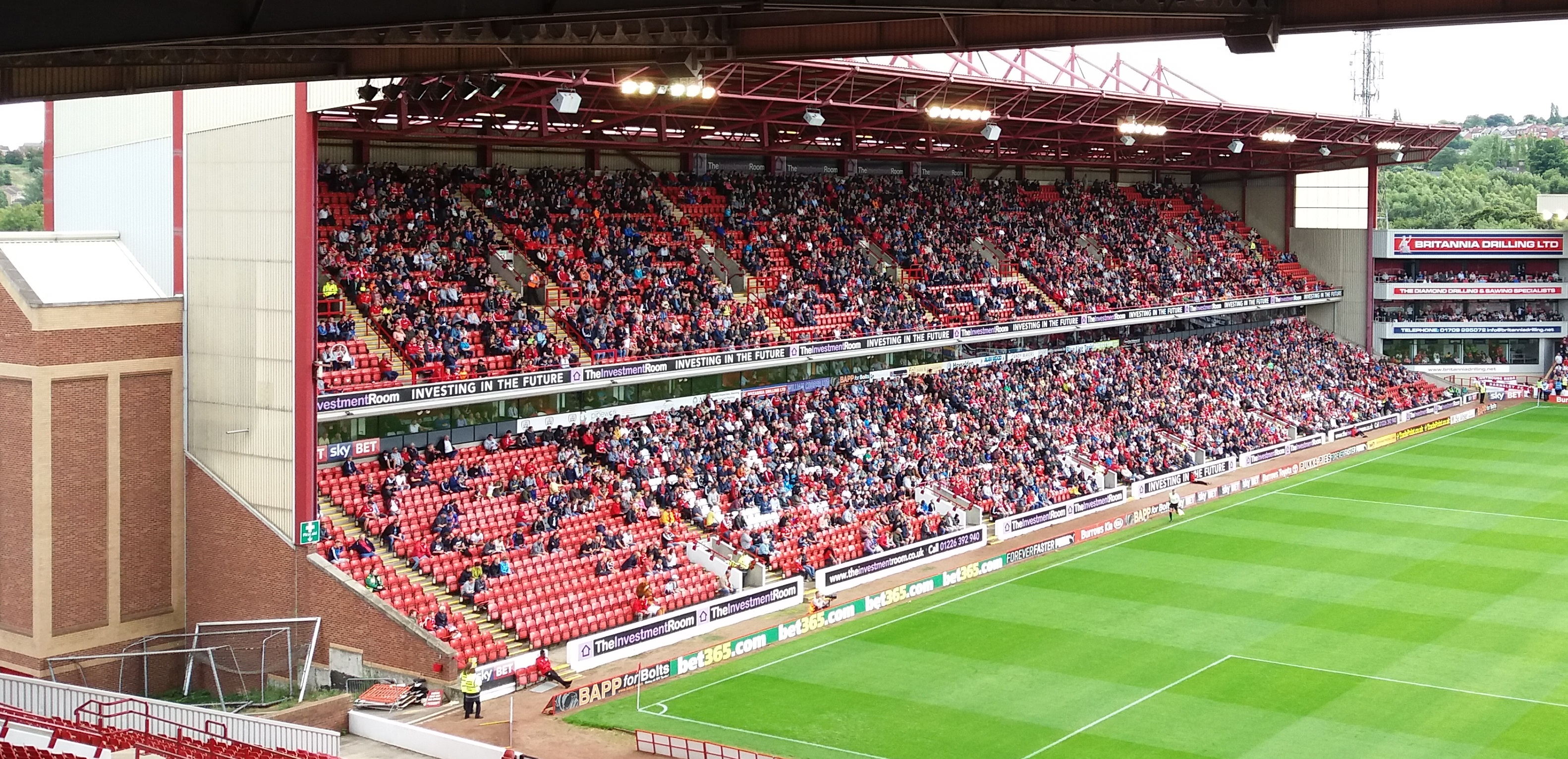 East Stand at Oakwell